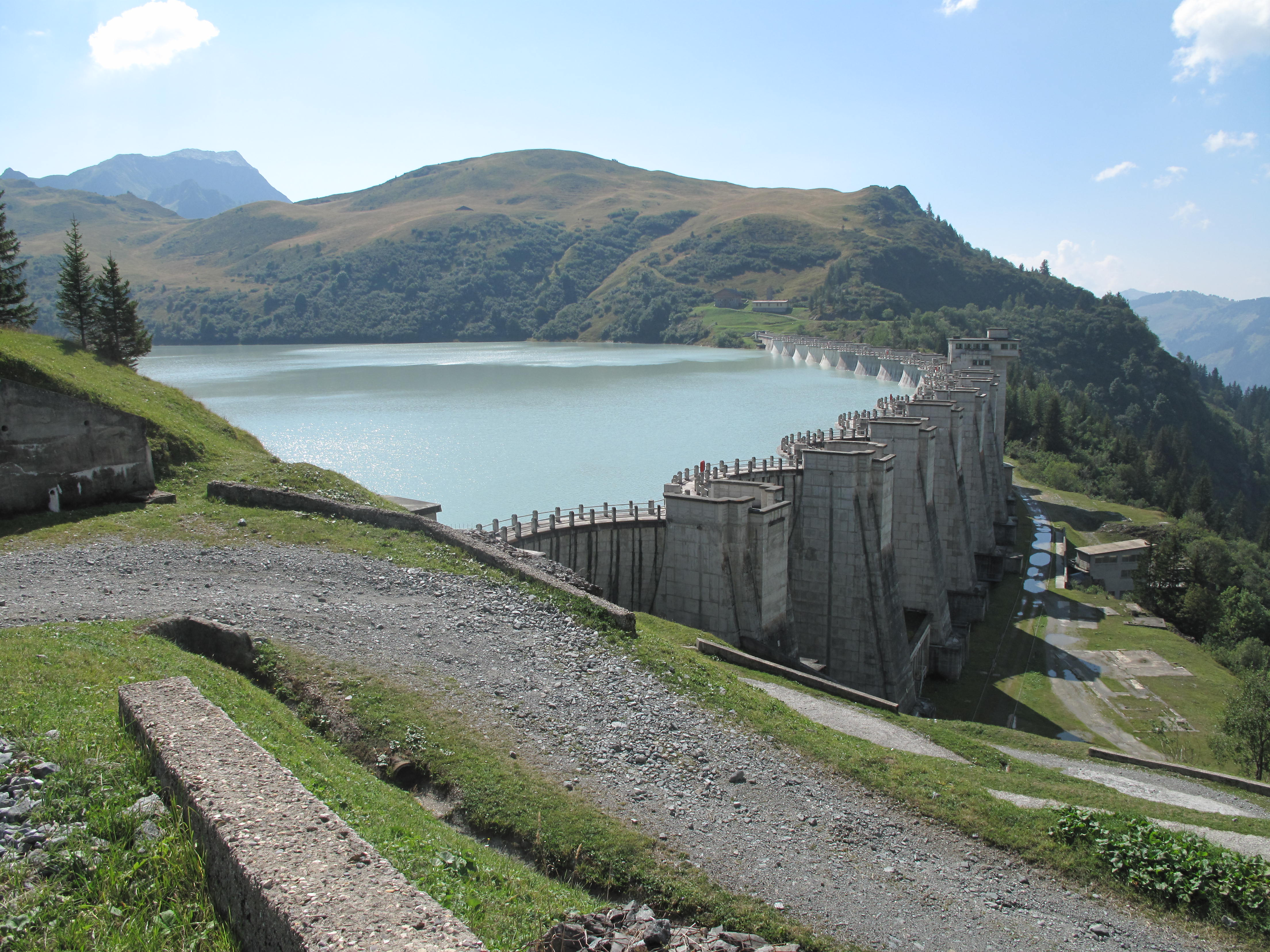 Dam and lake of la Girotte, Hauteluce (Haute-Savoie, France).